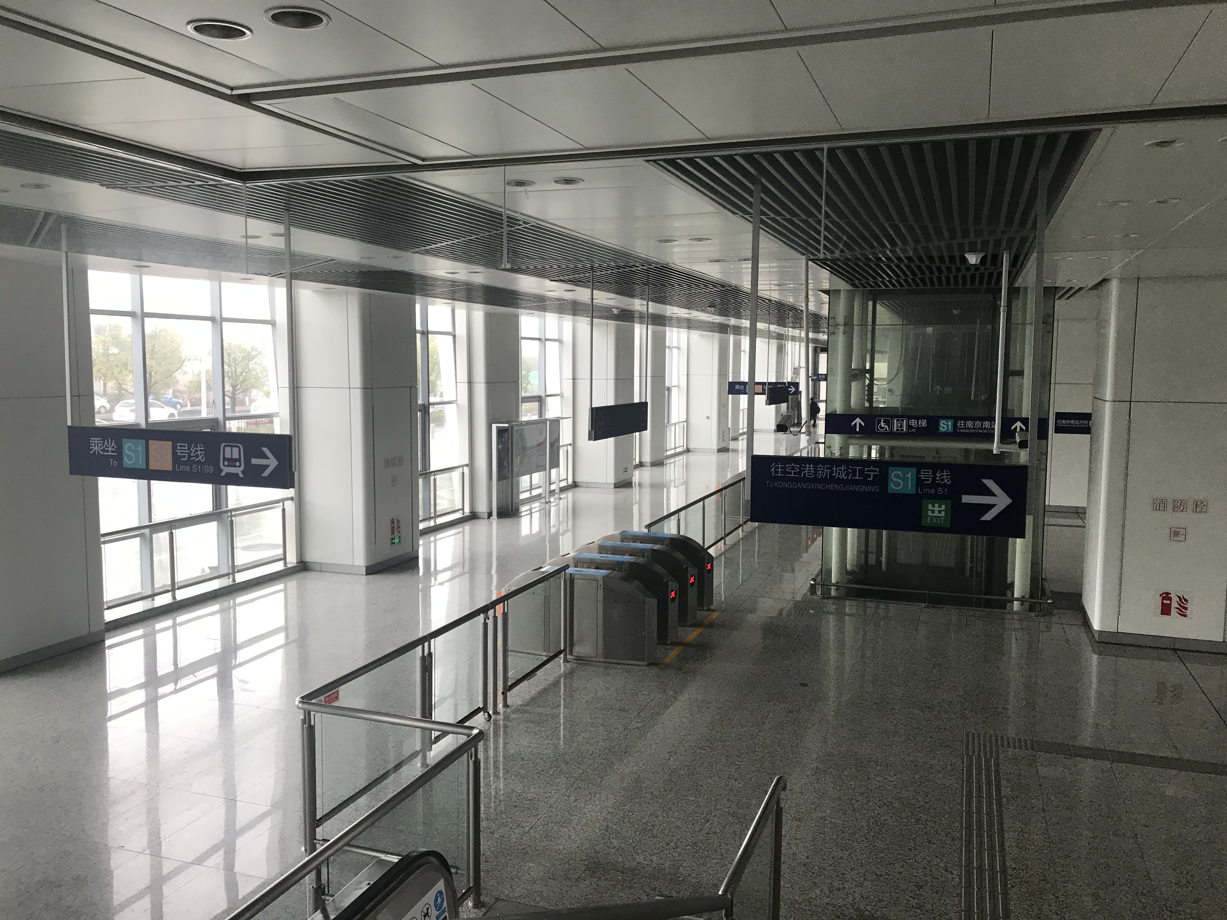 201912 Concourse of Xiangyulunan Station